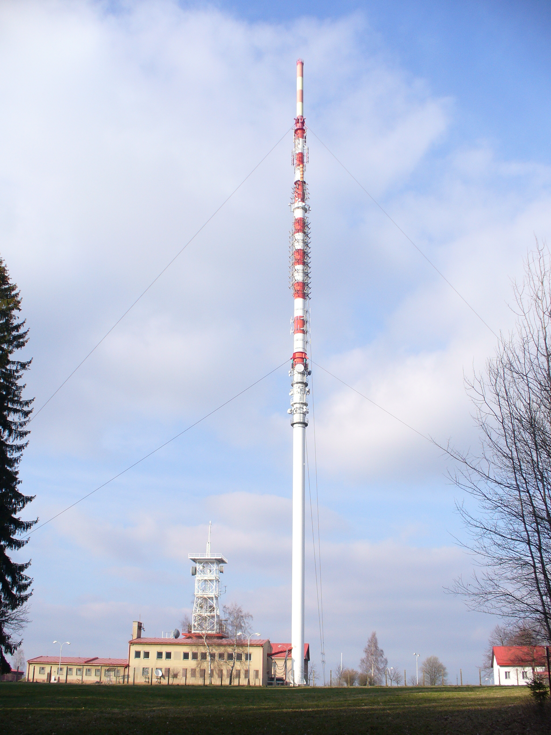 Buildings and tower of Krásné broadcast transmitter